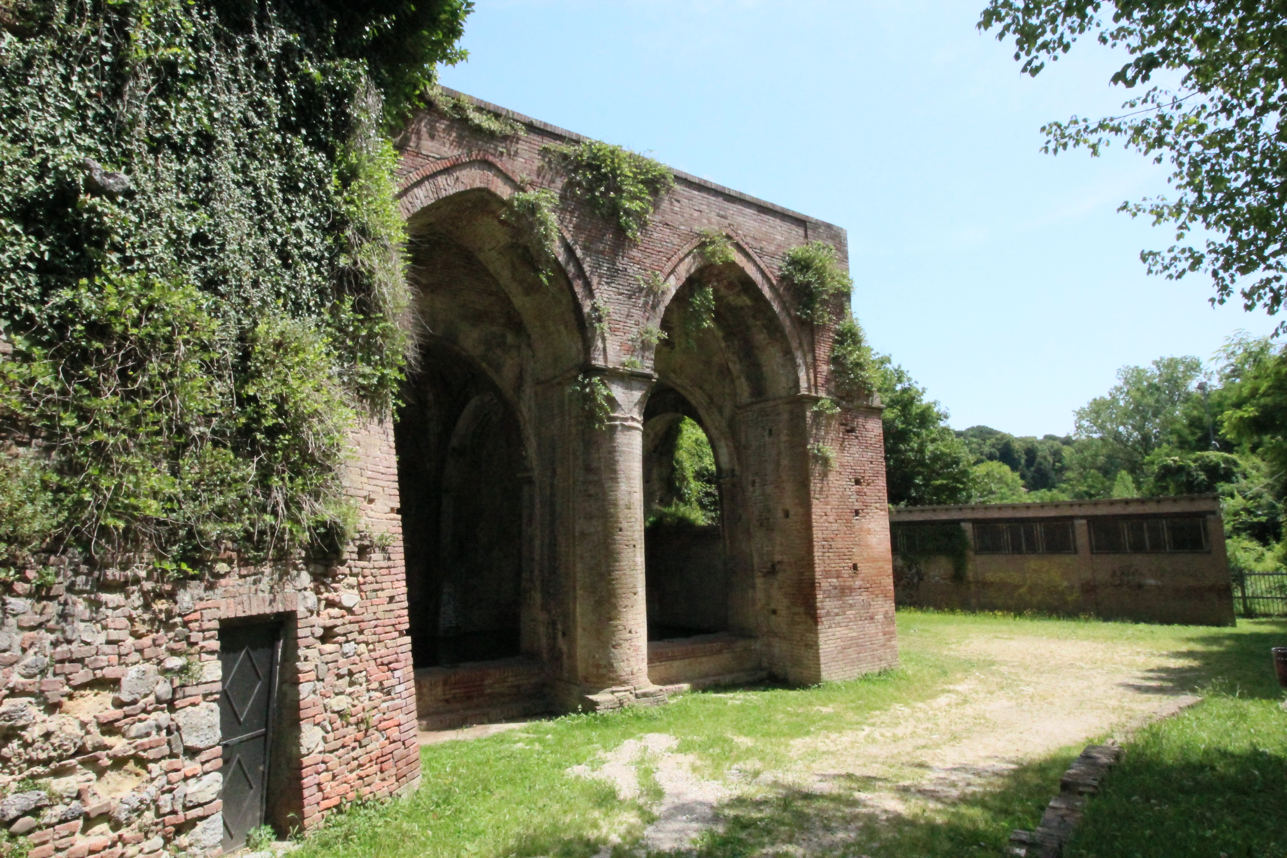 Fountain Fonte d’Ovile, just outside Porta d’Ovile, built around 1260/1262, Siena, Tuscany, Italy